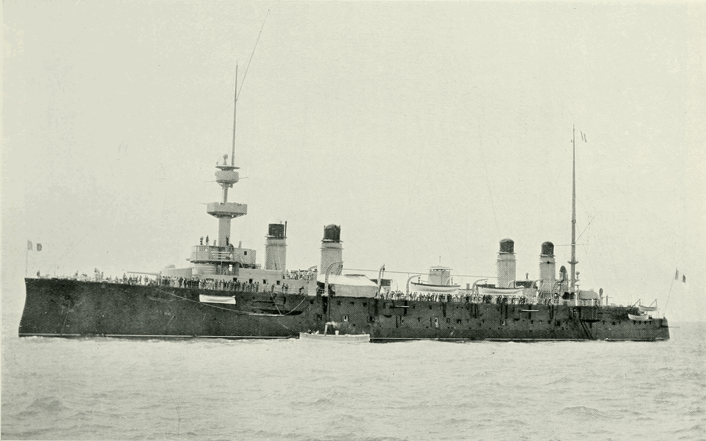 Photo of the French armoured cruiser Montcalm in Page's Magazine No. 2 from 1902. The cruiser was described in "Naval Notes" on page 177, accompanied by this photo on page 172.